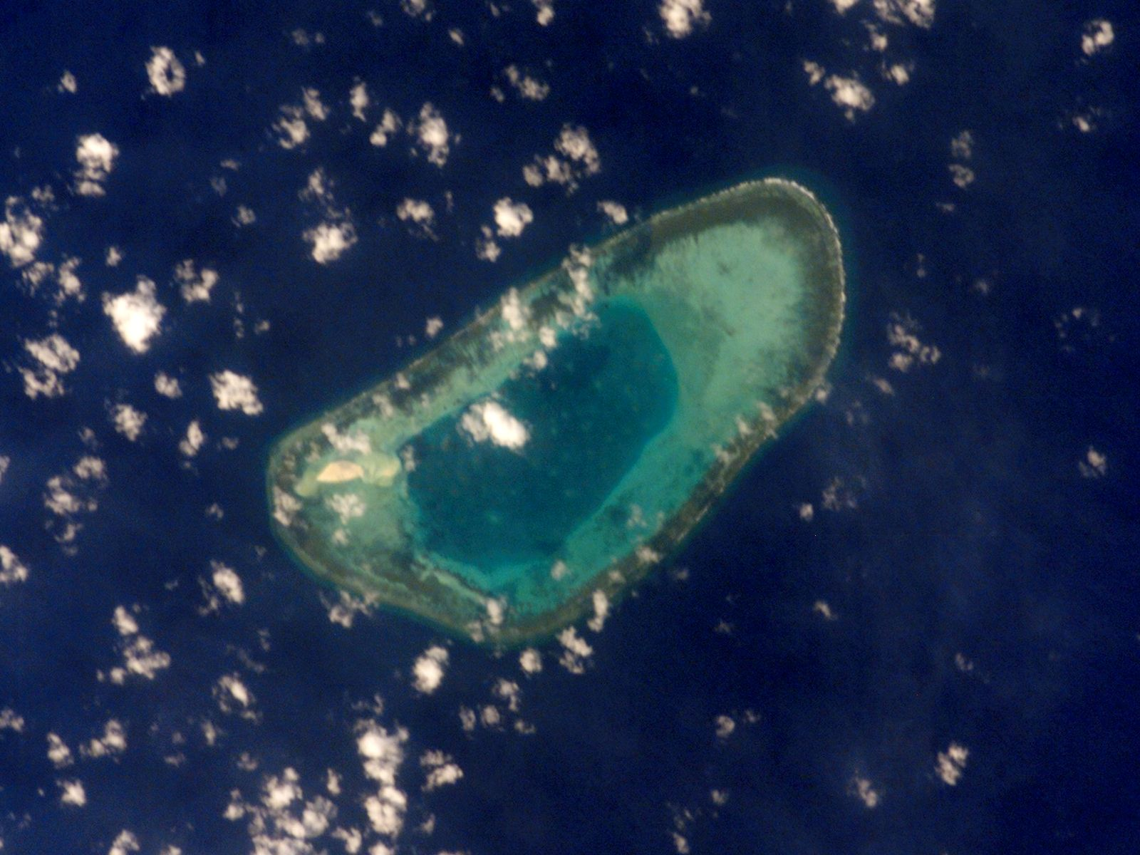 Passu Keah, Paracel Islands. Photo number: ISS004-E-7148. Image courtesy of the Image Science & Analysis Laboratory, NASA Johnson Space Center